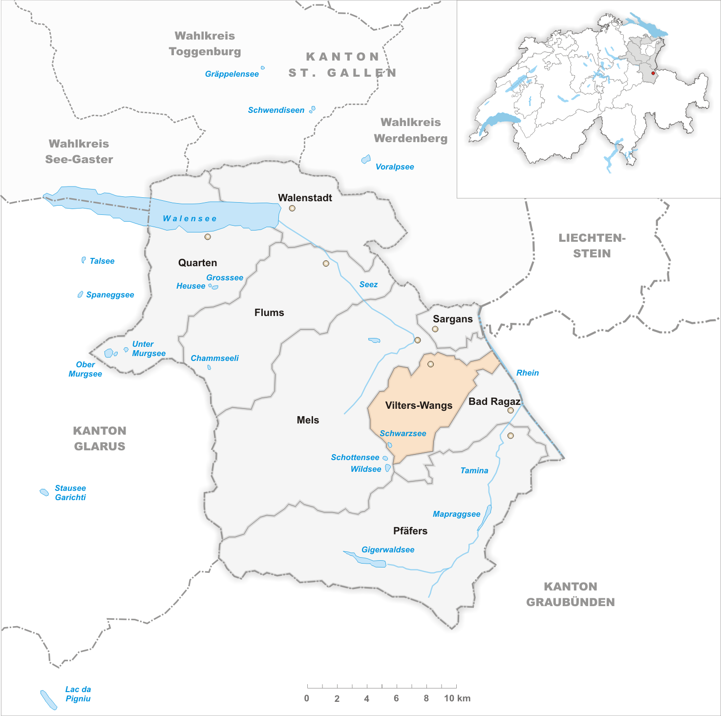 Municipality Vilters-Wangs